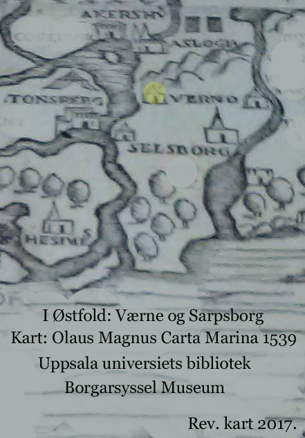 Part of old photoshoped map